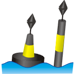 East cardinal mark in IALA system.